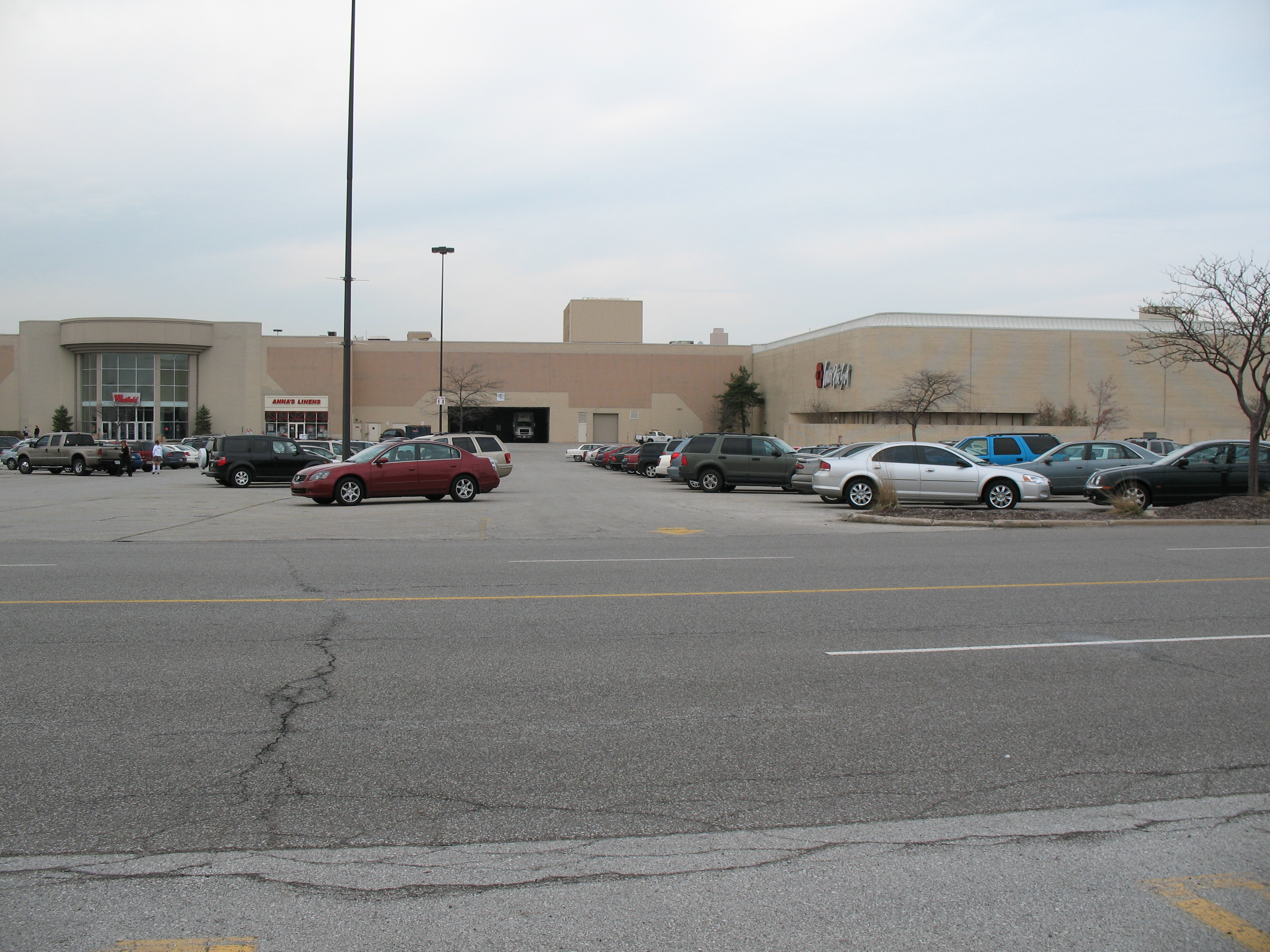 Westfield Southlake shopping center in Merrillville, Indiana